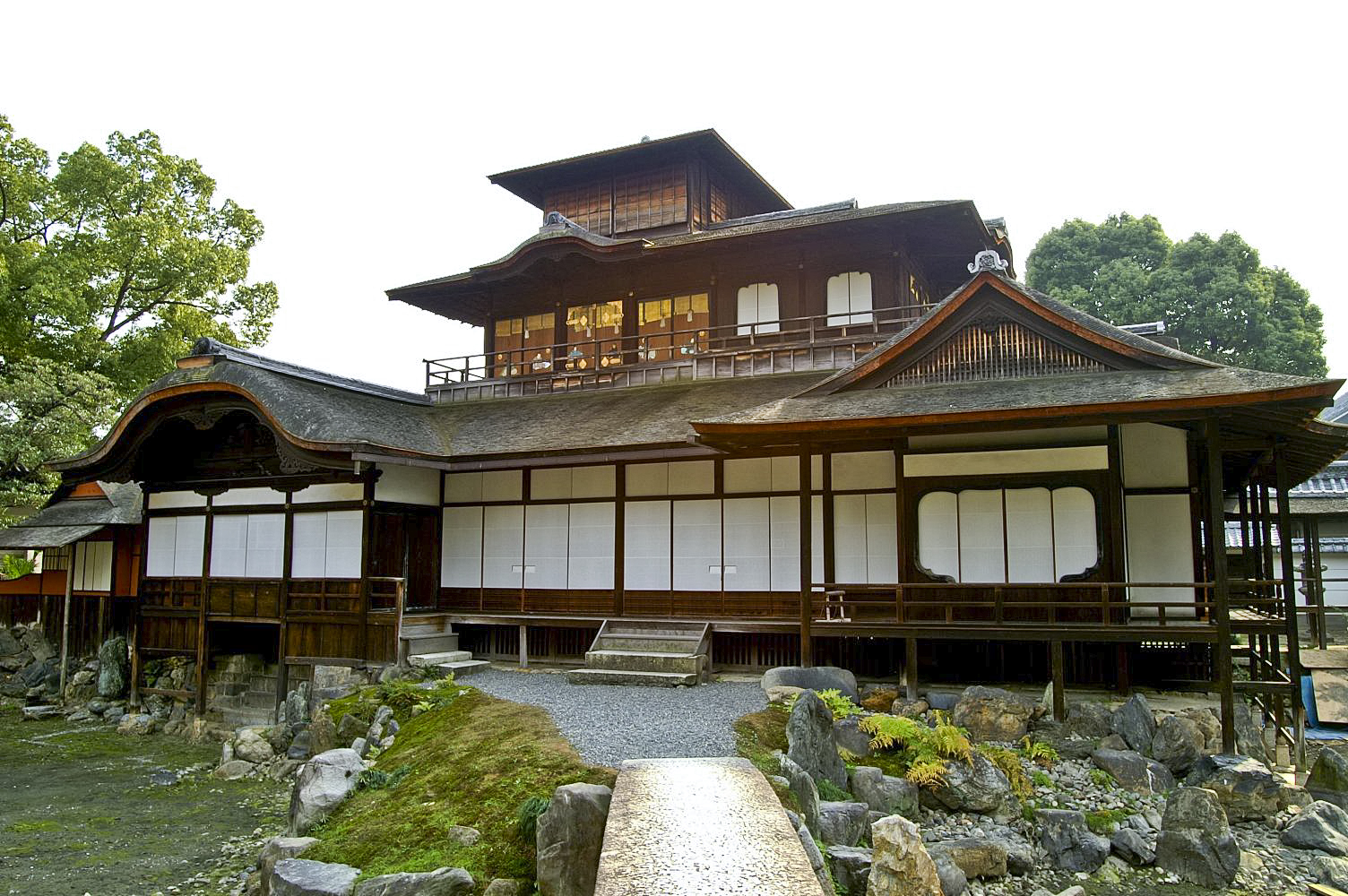 本願寺「飛雲閣」(国宝) 三層杮葺の楼閣建築で何処から見ても左右非対称なのが面白い。 この日は池の水が抜かれていたのでちょっと残念でした。 (2005/11/26 Hongwanji Temple, Kyoto, JAPAN) /* UNESCO World Heritage */ Historic Monuments of Ancient Kyoto (Kyoto, Uji and Otsu Cities) (1994) 世界遺産「古都京都の文化財」